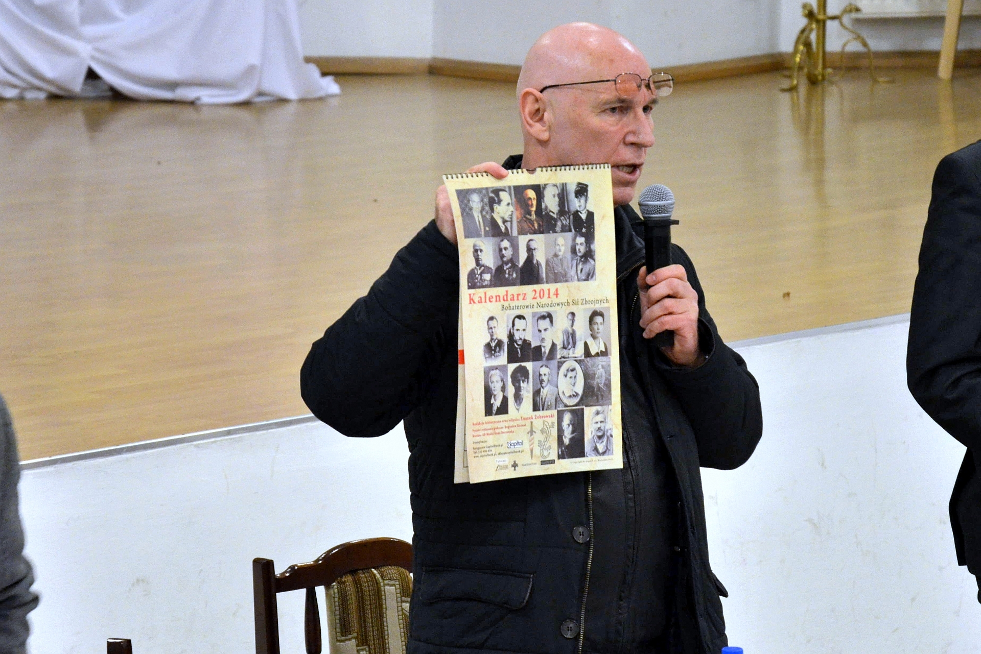 Leszek Żebrowski